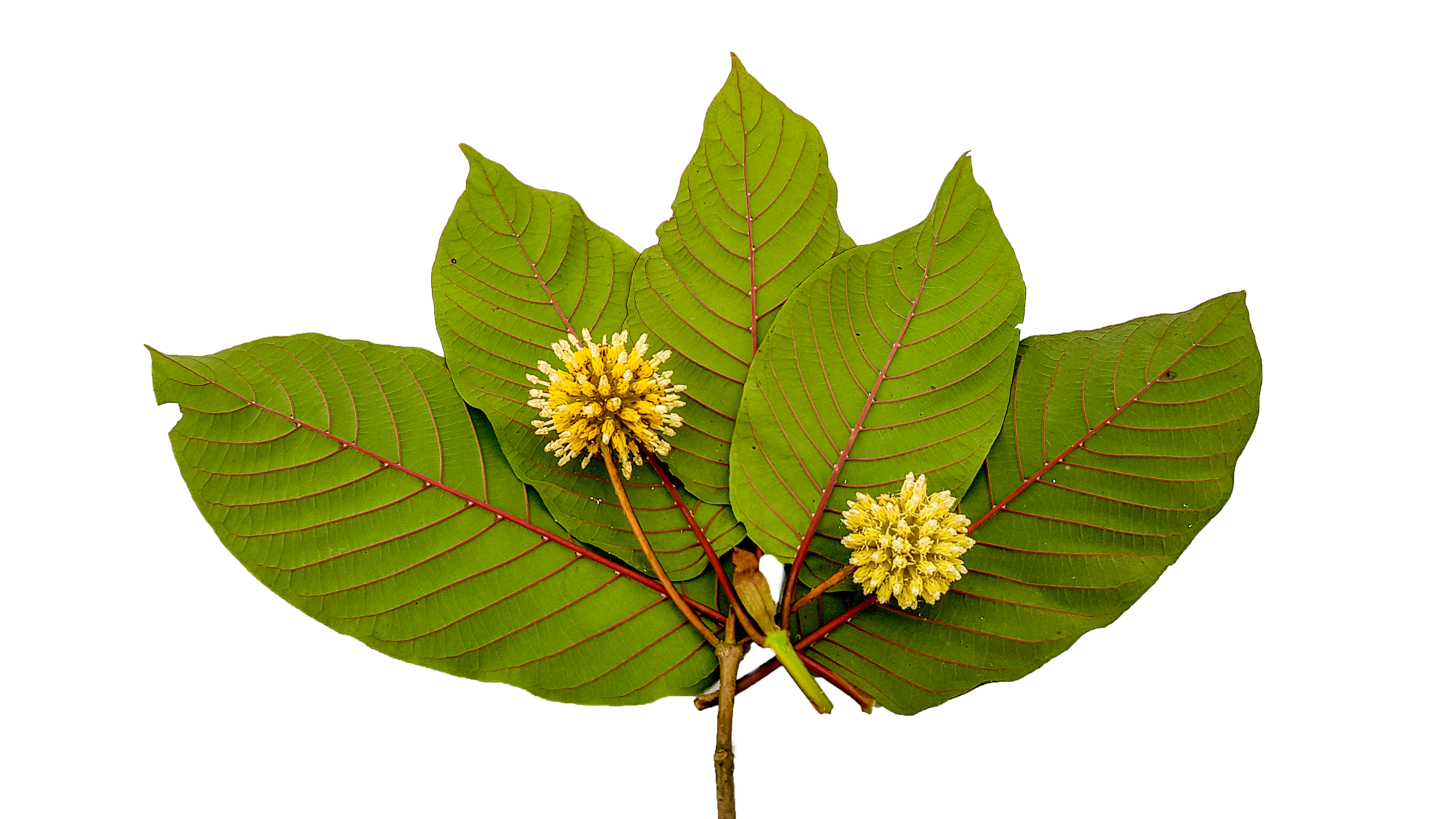 Red vein kratom leaves with a flower